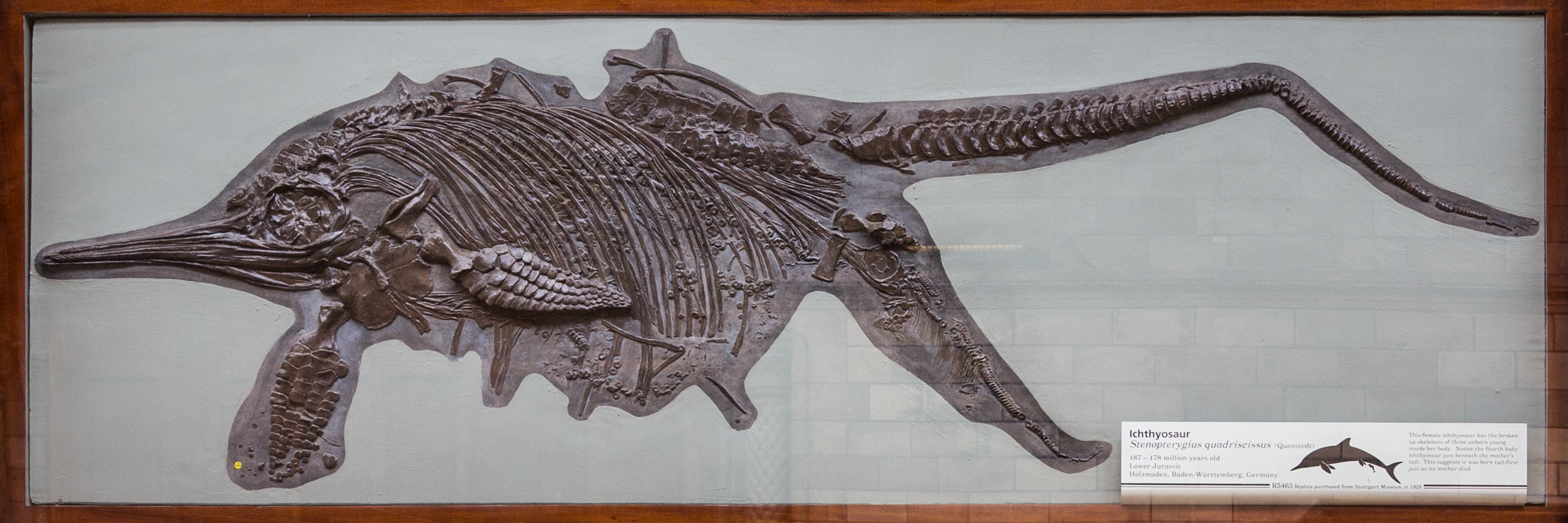 Stenopterygius 'birthing' specimen. Natural History Museum, London, 2017. Photo by Stephen O'Connor. Canon 60d, Sigma 18-35mm.